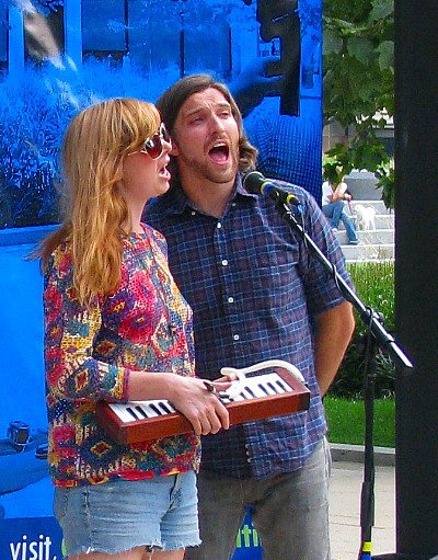 The Spring Standards playing at Center Plaza in Baltimore, MD, August 24, 2011.